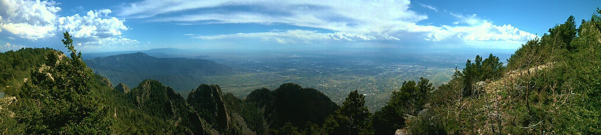 A panaoramic view from Sandia Crest in New Mexico, centered to the southwest and showing Albuquerque in the distance.